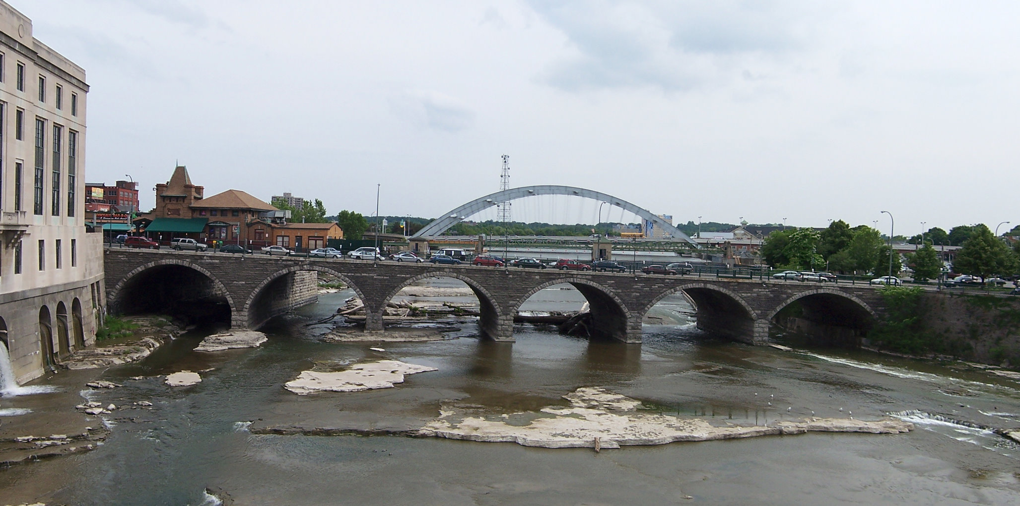 The Court Street Bridge over the Genesee River in Rochester, New York. It is listed on the National Register of Historic Places. The Rundel Memorial Library is on the left side of the image. The former Lehigh Valley Railroad Station at the left edge of the bridge now houses Dinosaur Bar-B-Que. In the background is the Frederick Douglass – Susan B. Anthony Memorial Bridge, carrying Interstate 490. This panorama was stitched from two separate photographs by "hugin", then cropped.